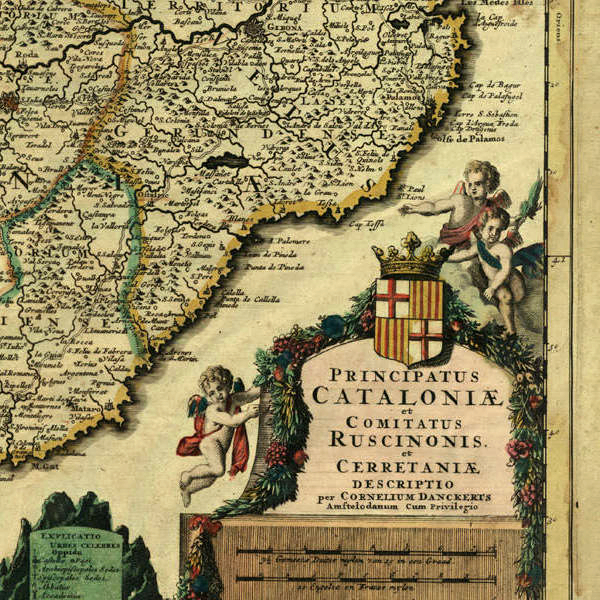 Cornelis Danckerts, Principatus Cataloniae et comitatus Ruscinonis et Cerretaniae descriptio, Amsterdam: C. Danckerts. post 1696, detail